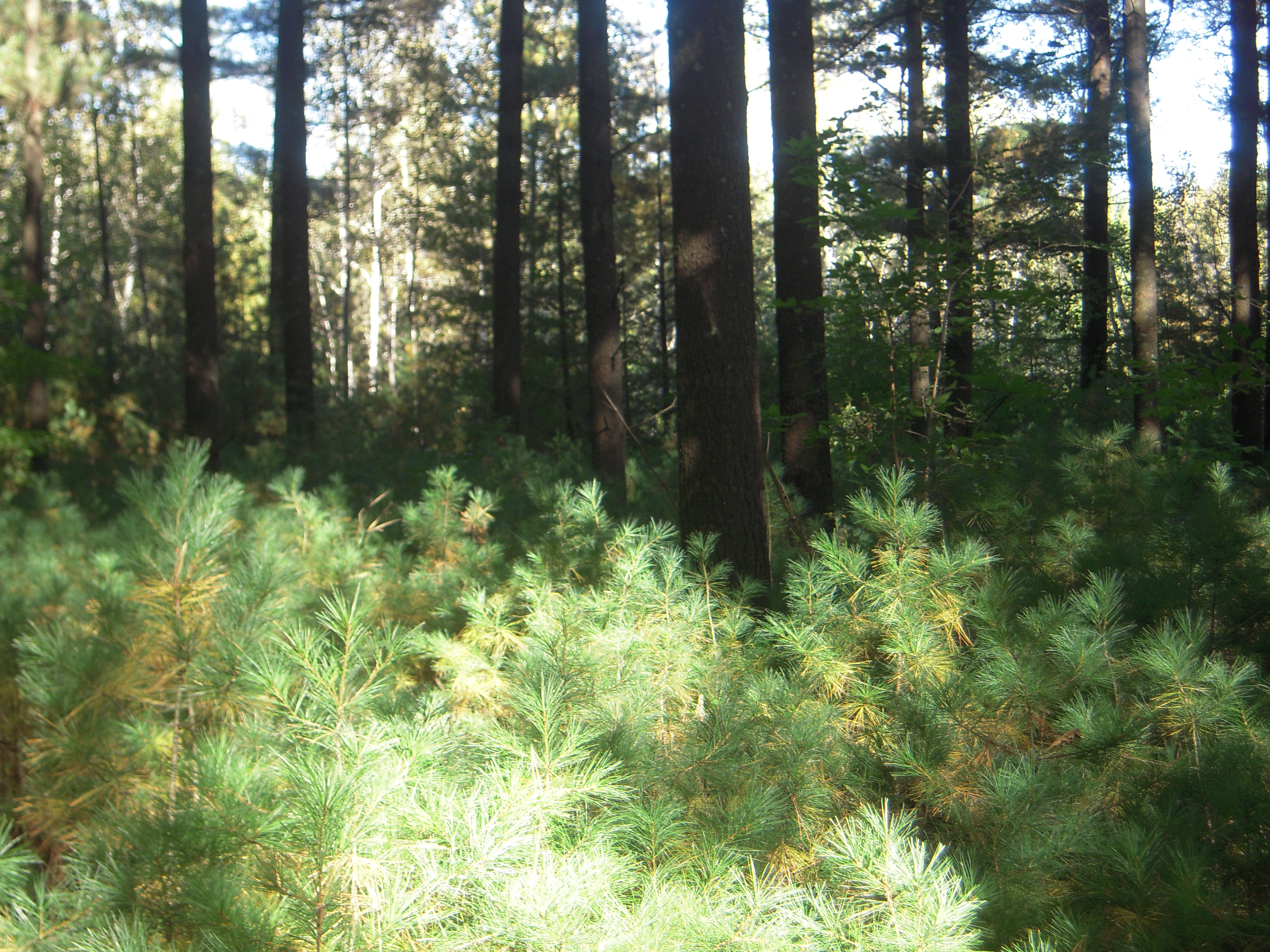 Pinus strobus saplings in the understory. At Sand Dunes State Forest, Sherburne County, Minnesota.